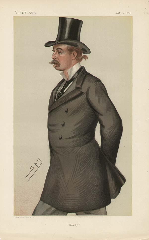 Statesmen No.334: Caricature of Mr MJ Guest MP. Caption reads: "Monty"